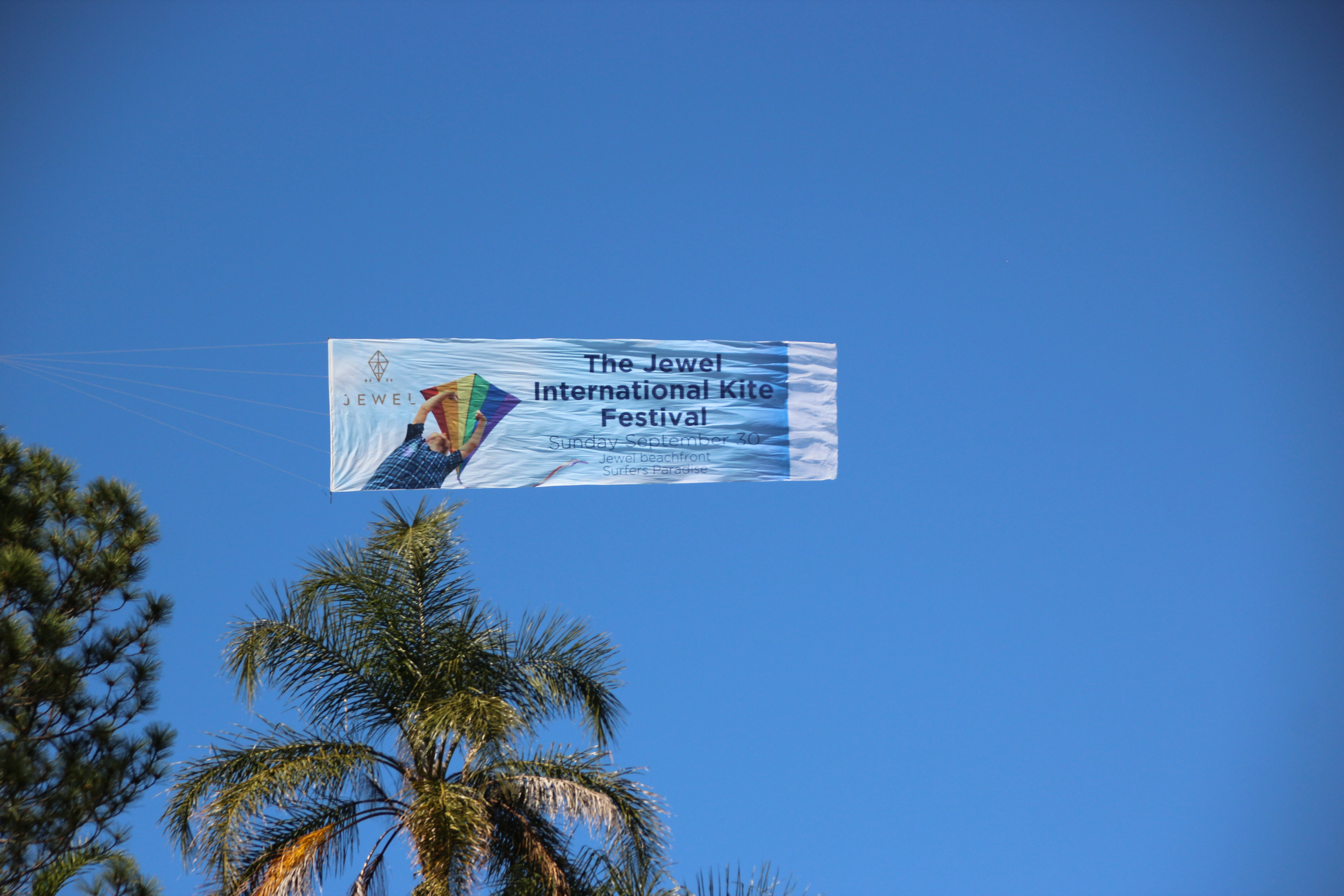 A 20-foot-high by 80-foot-long aerial billboard for the "Jewel International Kite Festival", a one-off half-day promotional event in 2018 for Jewel Residences, a beachfront highrise development in Surfers Paradise, Queensland[1]